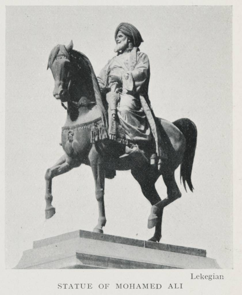 Statue of Mohamed Ali on horseback.